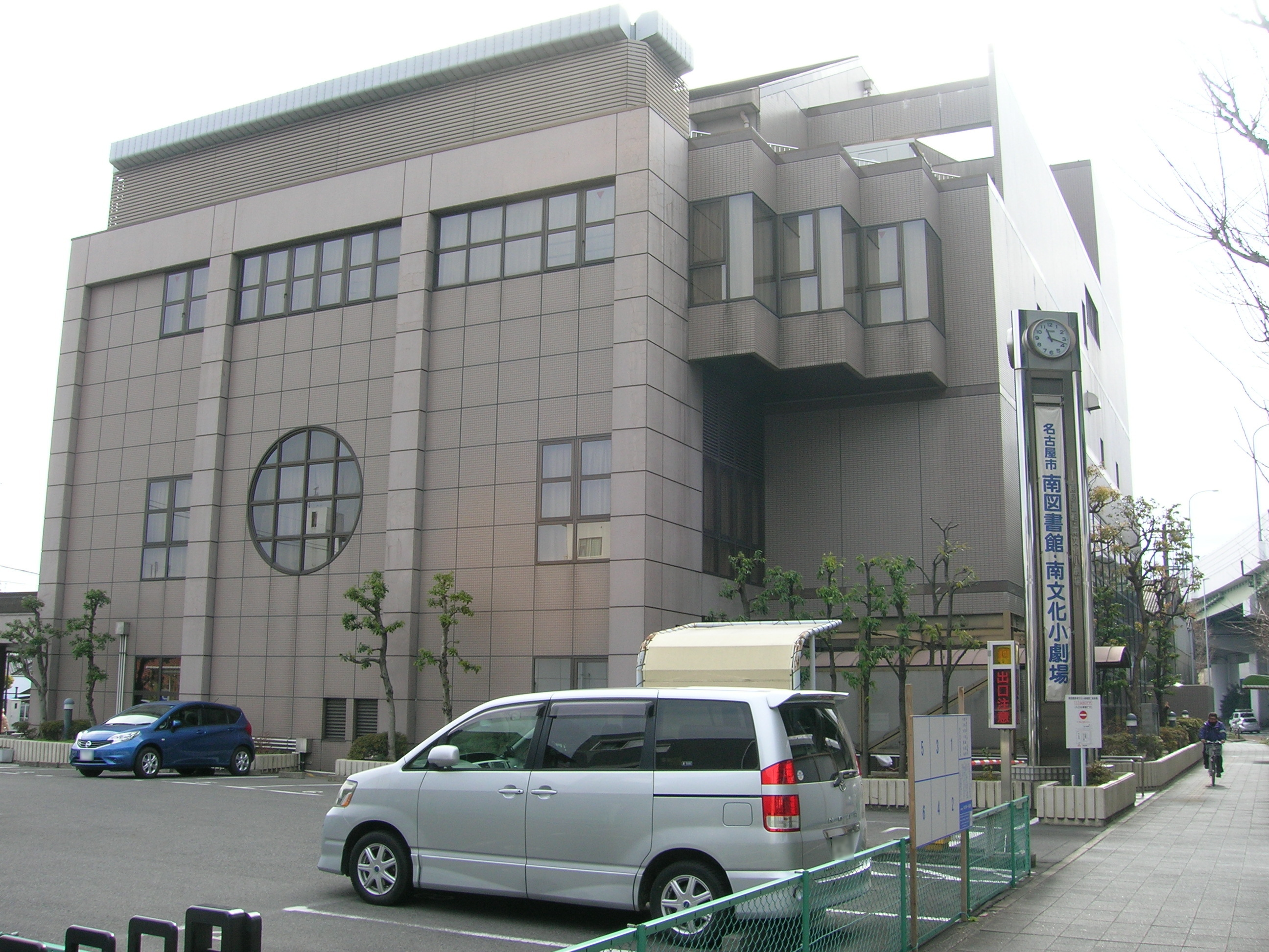 Nagoya City Minami library, and Nagoya City Minami Playhouse. Loc: Minami-ku, Nagoya city, Aichi Prefecture, Japan. 名古屋市南図書館 （名古屋市南文化小劇場） 撮影場所 愛知県名古屋市南区